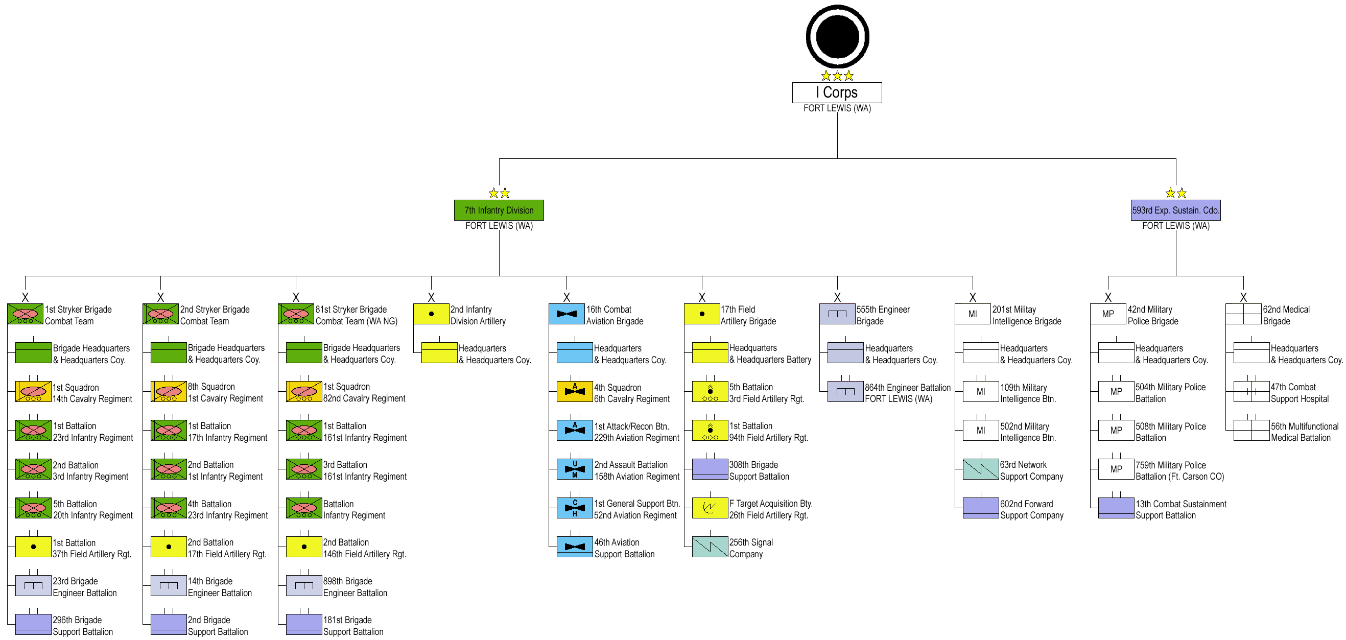 US Army I Corps Structure